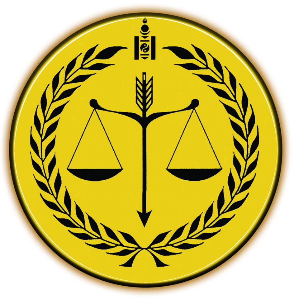 This is the emblem used by various judicial organs in Mongolia.